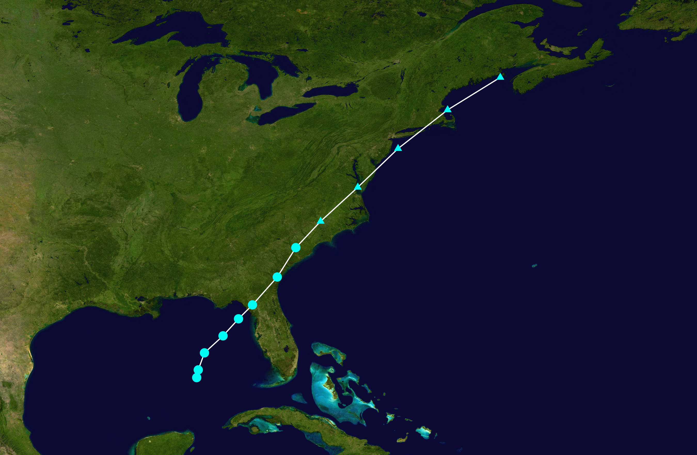 Track map of Tropical Storm Andrea of the 2013 Atlantic hurricane season. The points show the location of the storm at 6-hour intervals. The colour represents the storm's maximum sustained wind speeds as classified in the Saffir–Simpson scale (see below), and the shape of the data points represent the nature of the storm, according to the legend below. Saffir–Simpson scale Tropical depression≤38 mph≤62 km/h Category 3111–129 mph178–208 km/h Tropical storm39–73 mph63–118 km/h Category 4130–156 mph209–251 km/h Category 174–95 mph119–153 km/h Category 5≥157 mph≥252 km/h Category 296–110 mph154–177 km/h Unknown Storm type Tropical cyclone Subtropical cyclone Extratropical cyclone / Remnant low / Tropical disturbance / Monsoon depression